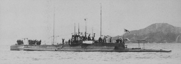 HIJMS Ro-16